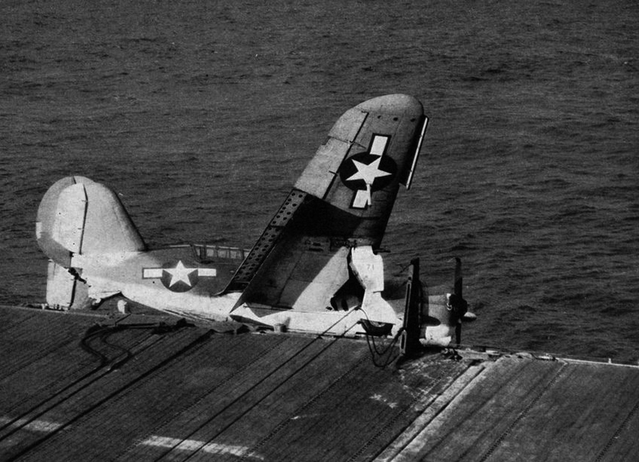 A U.S. Navy Curtiss SB2C Helldiver crashes aboard the aircraft carrier USS Shangri-La (CV-38), circa in 1945.